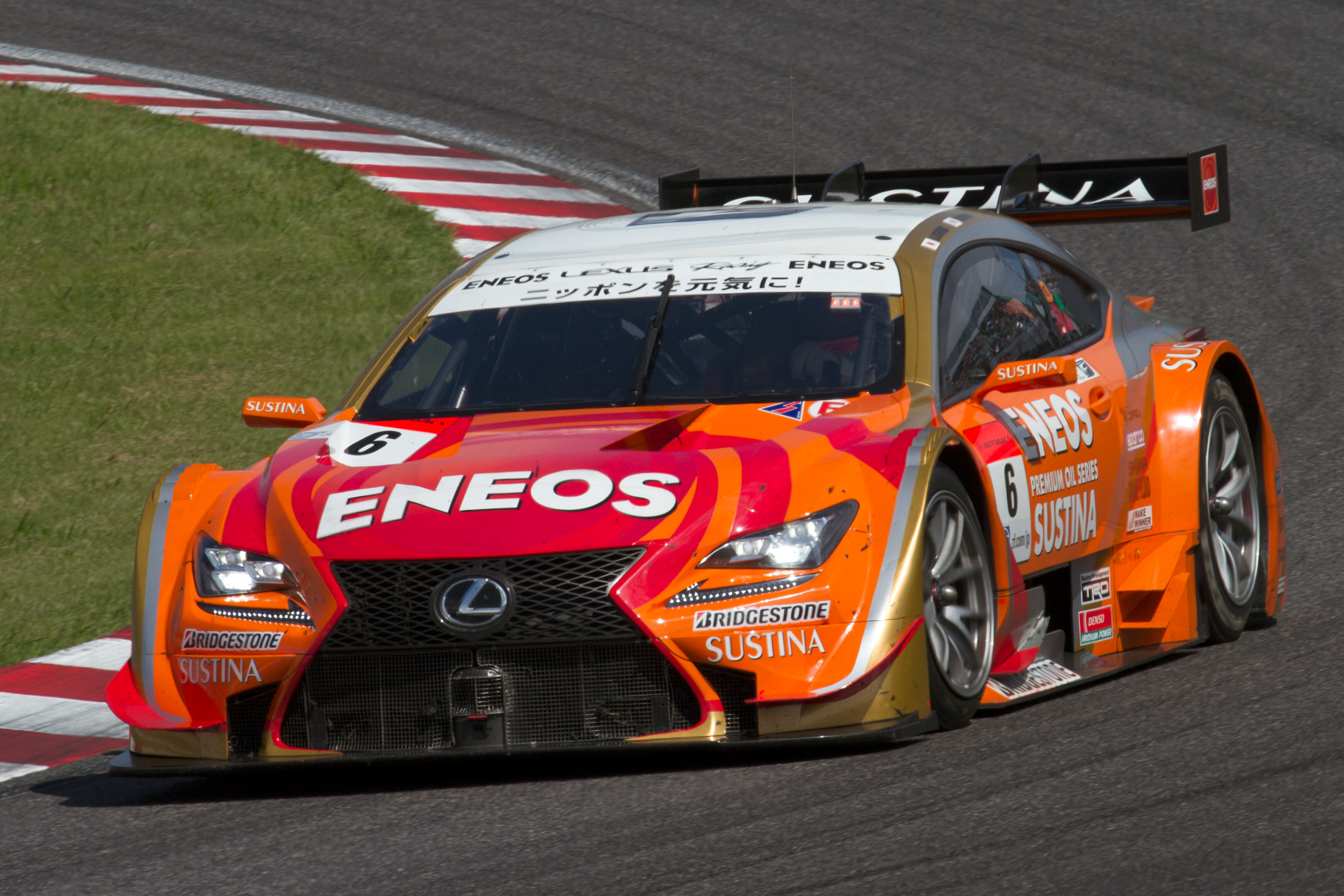 Super GT 2014 Rd.6 Suzuka 1000km: Kazuya Oshima (Team LeMans)